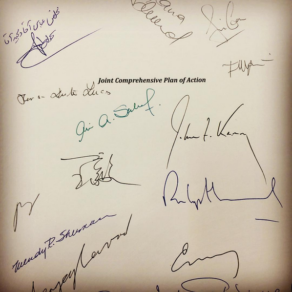 Signatures on the Joint Comprehensive Plan of Action (JCPOA) documentOn the top left side, there is a Persian handwriting by Mohammad Javad Zarif, which reads: مخلص عباس‌آقا و مجيدآقا. Translation: [I am] Sincere to Mr. Abbas [Araqchi] and Mr. Majid [Takht-Ravanchi].